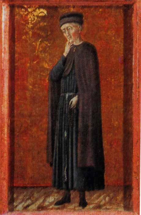 Blessed Pier Pettinaio, bhy Pietro di Lorenzo Vecchieta (Siena, Museo di Arte Senese)